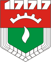 Stavropol (Stavropol krai), coat of arms (1969)